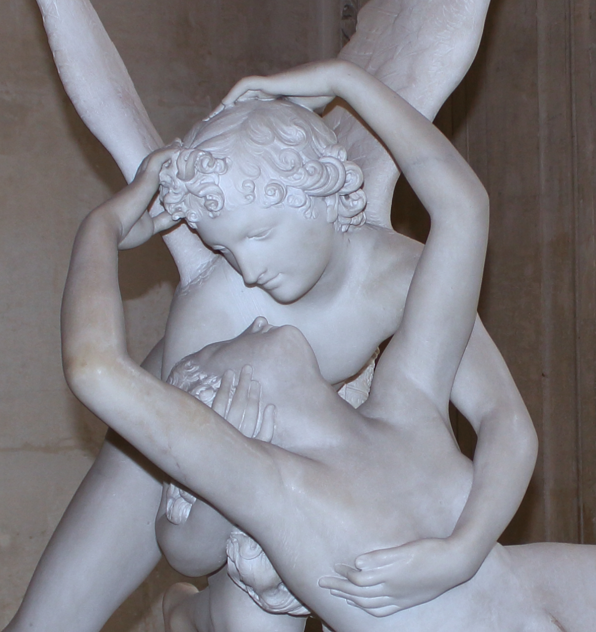 Psyché ranimée par le baiser de l'Amour (Psyche revived by the kiss of Love). Marble, 1793.